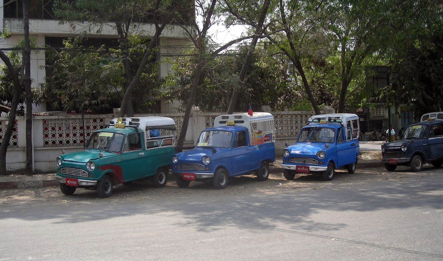 Your standard taxi in Myanmar - the Mazda B360 pickup